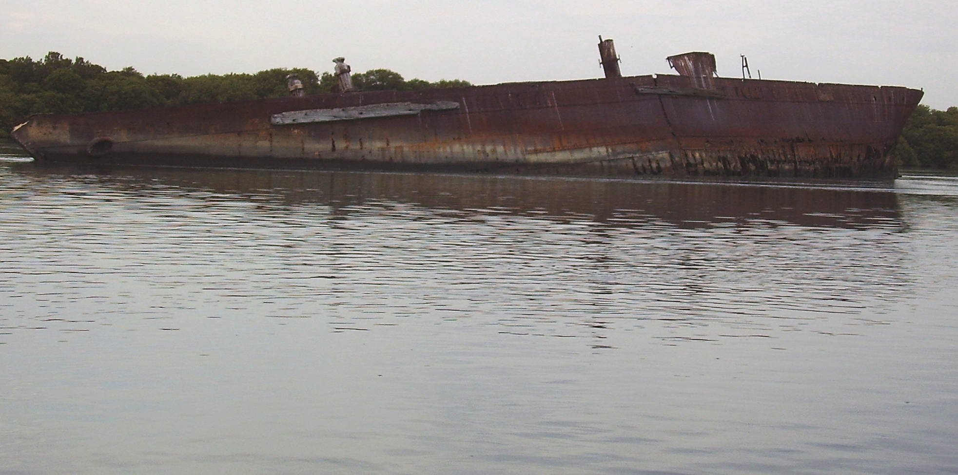 Wreck of the Santiago, in the ships graveyard. The ship is in the North Arm, a waterway between the Port River and Barker Inlet, Adelaide, South Australia.